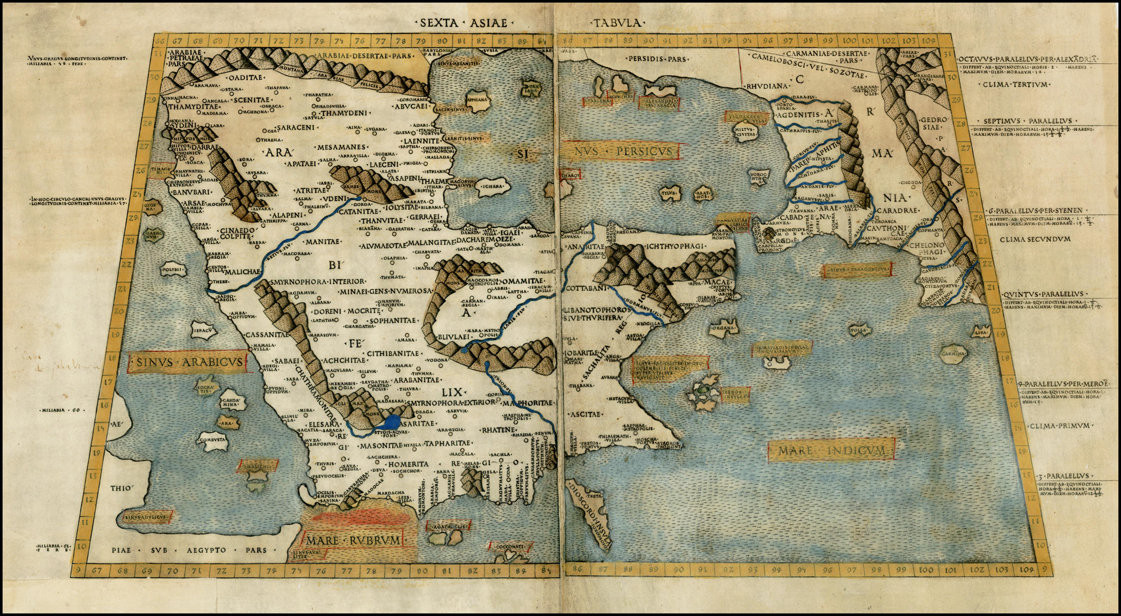 The Sixth Asian Map, depicting Arabia Felix, from the first Roman printing of Ptolemy's Geography